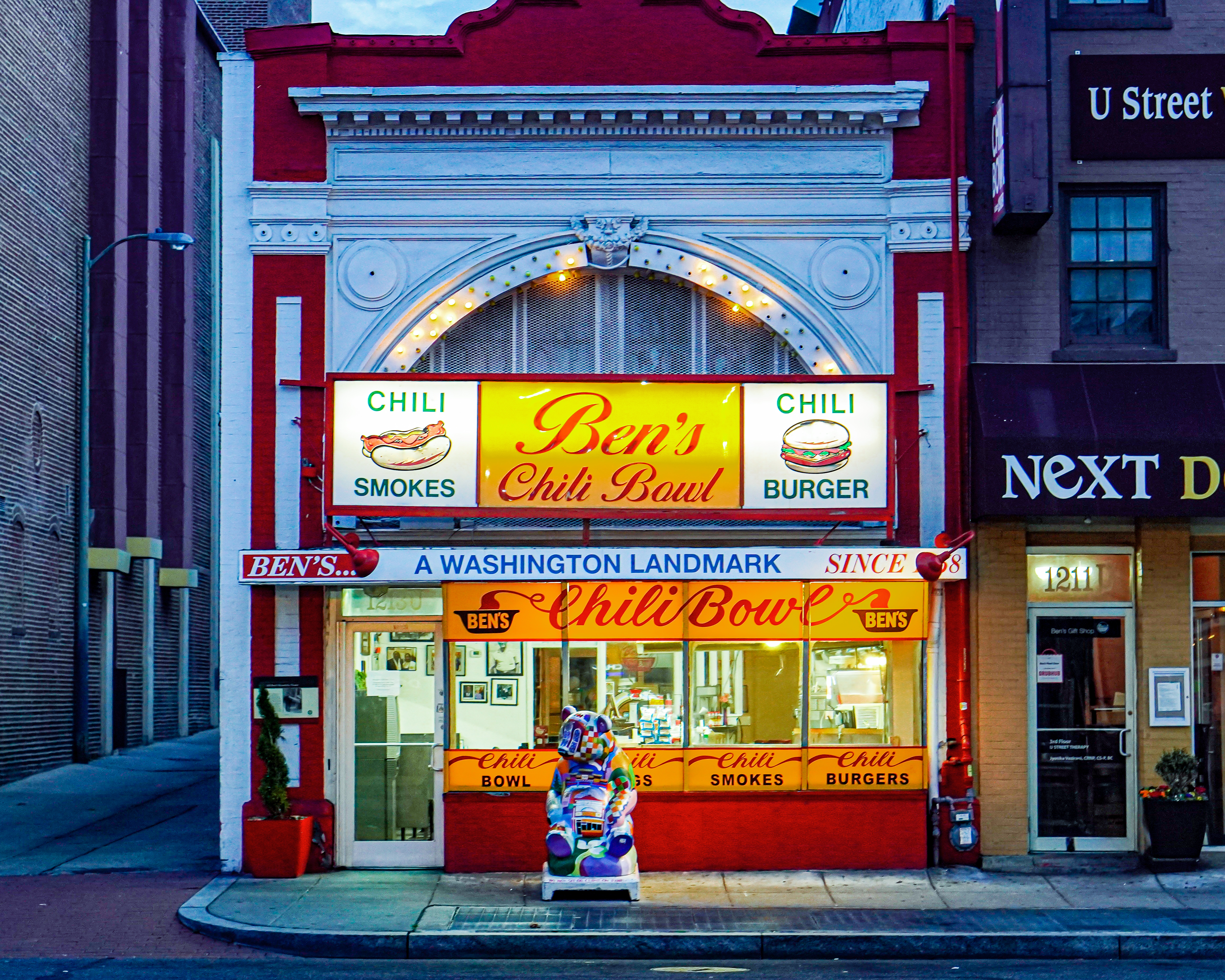 Sad Panda, Ben's Chili Bowl